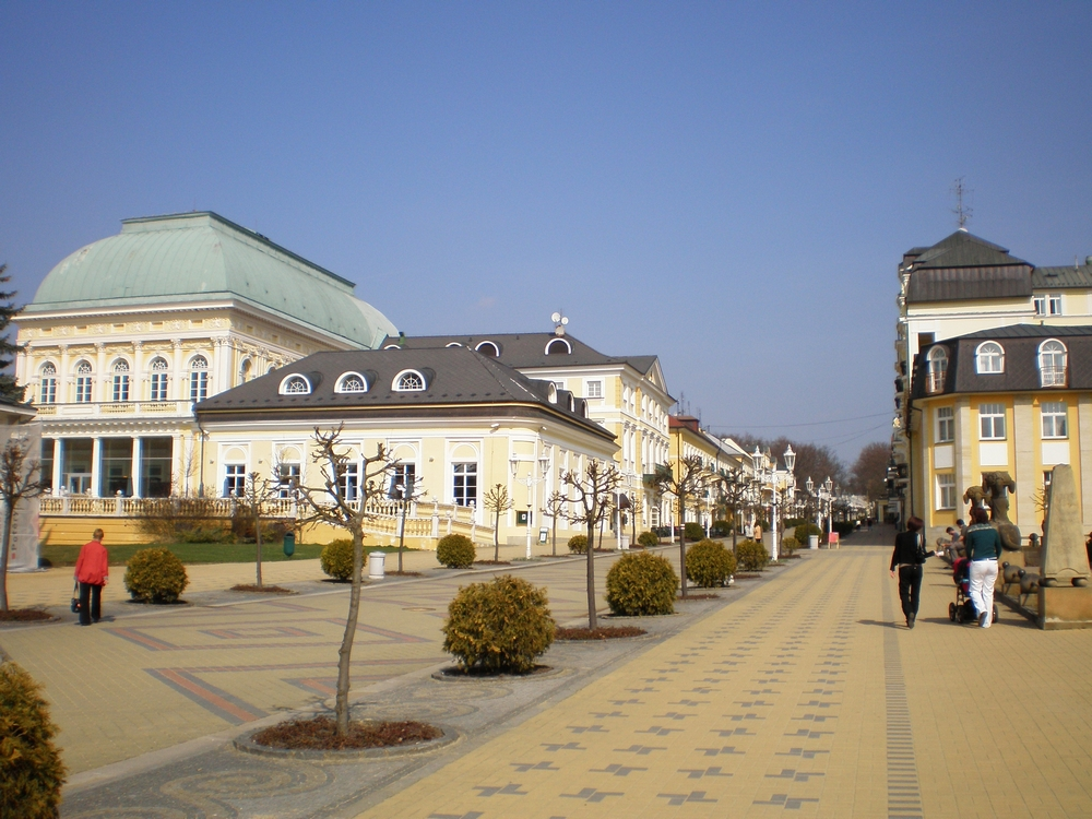 Františkovy Lázně, Czech Republic, colonade